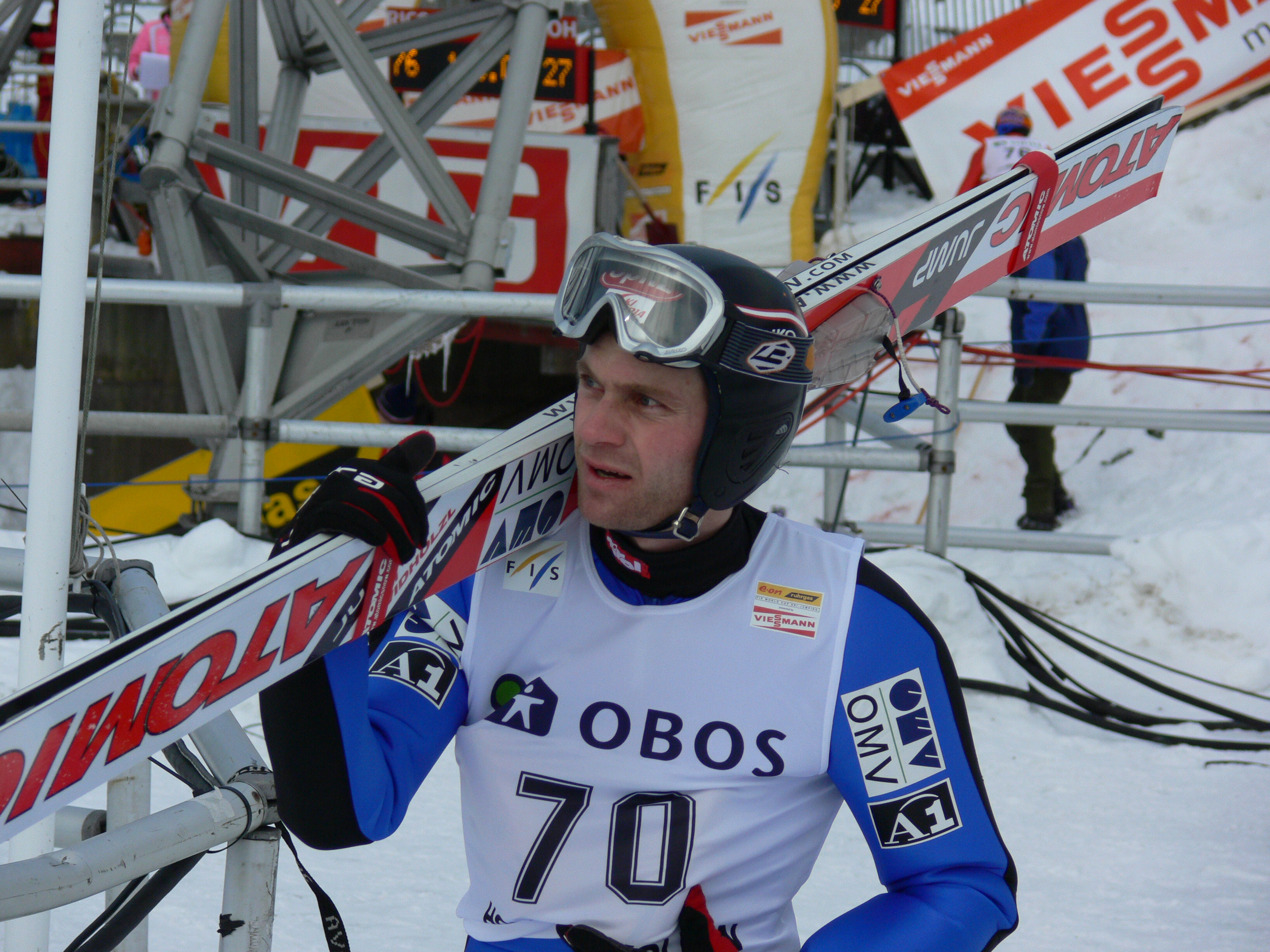 From the 2006 World Cup ski jumping event in Holmenkollen.